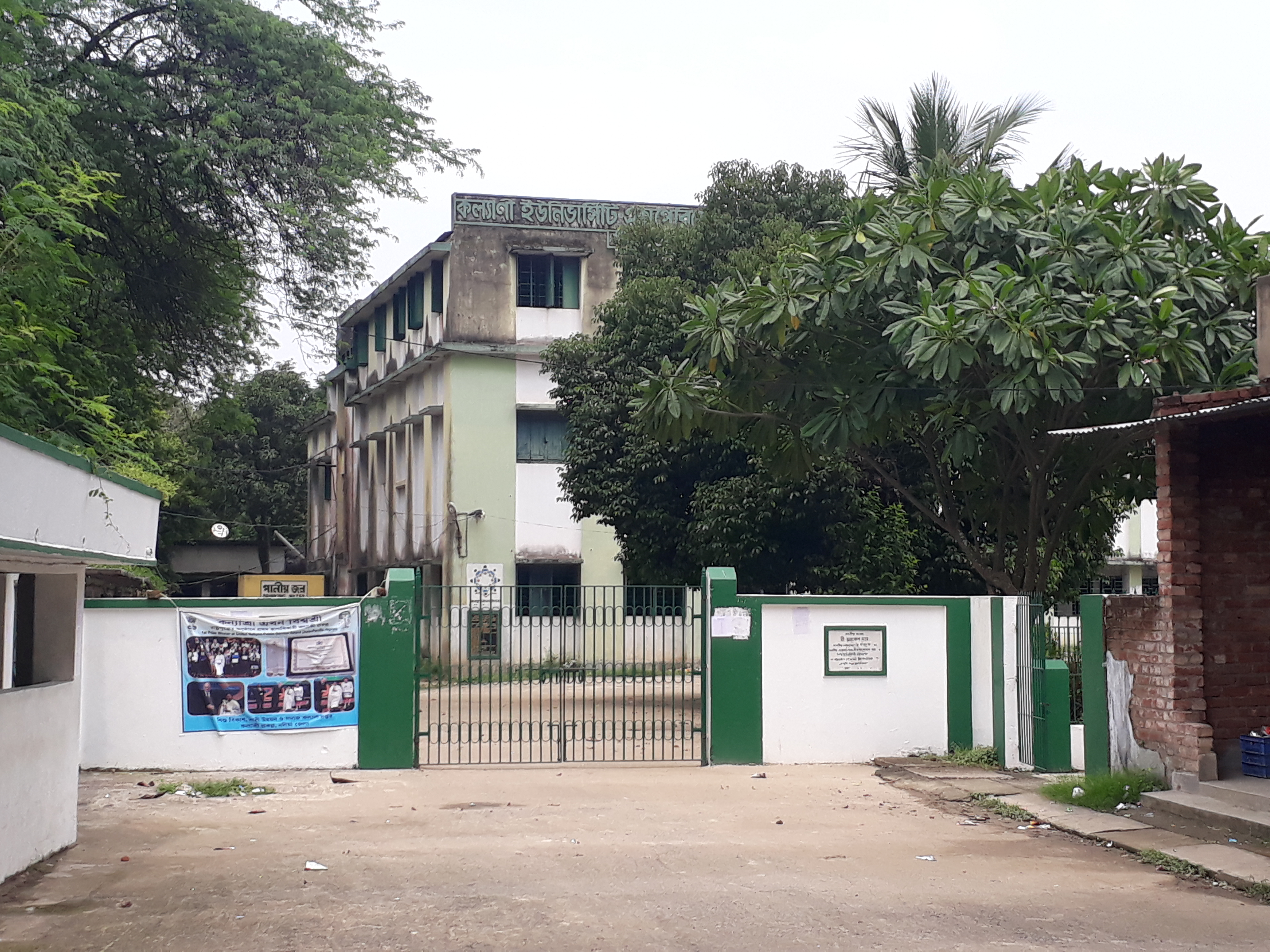 K.U Experimental High School Building, Kalyani